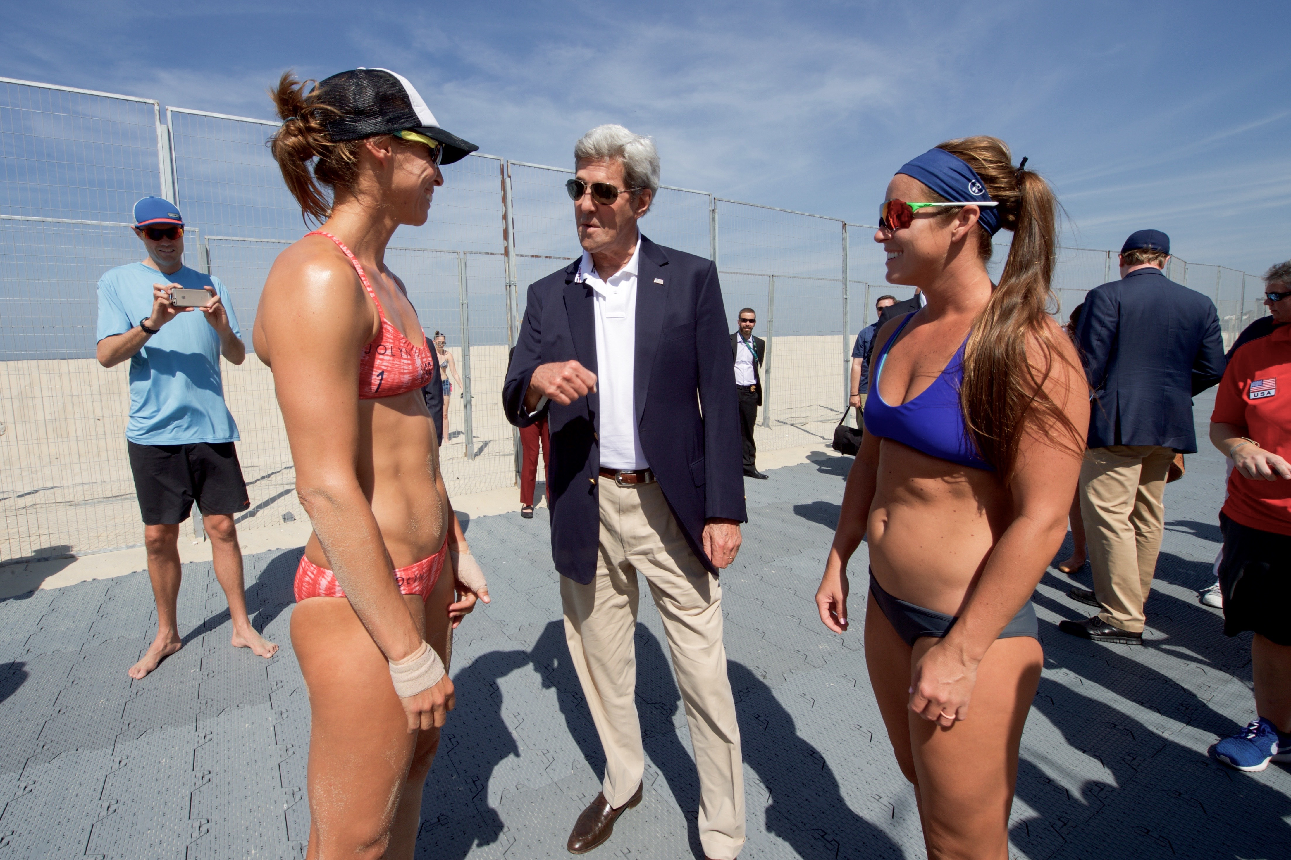 U.S. Secretary of State John Kerry speaks with U.S. Olympic women's beach volleyball players Lauren Fendrick (left) and Brooke Sweat (right) on the Copacobana beach in Rio de Janiero, Brazil, on August 6, 2016, as he and his fellow members of the U.S. Presidential Delegation attend the Summer Olympics. [State Department Photo/ Public Domain]